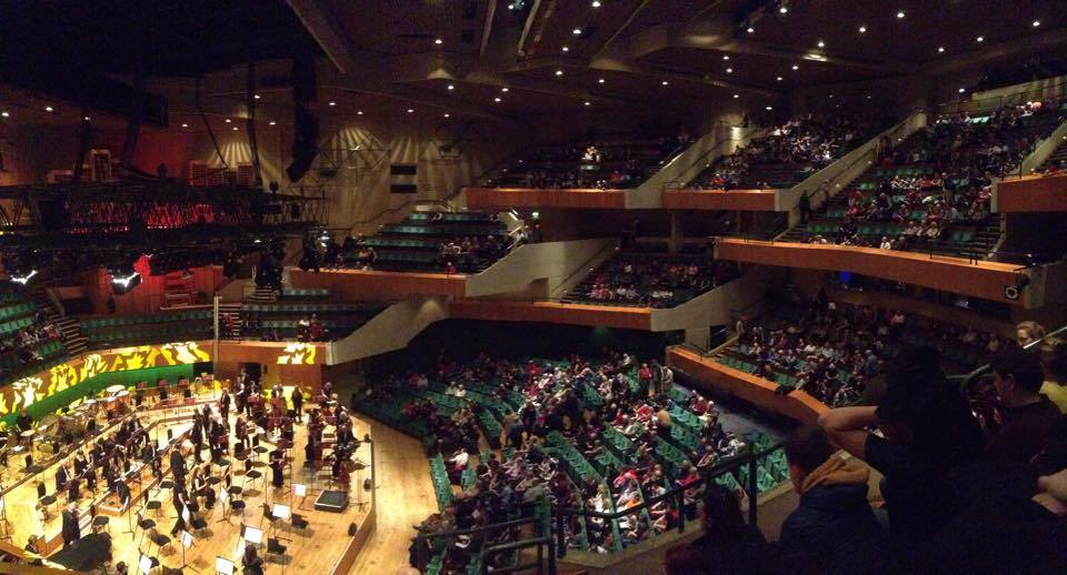 St Davids Hall Interior